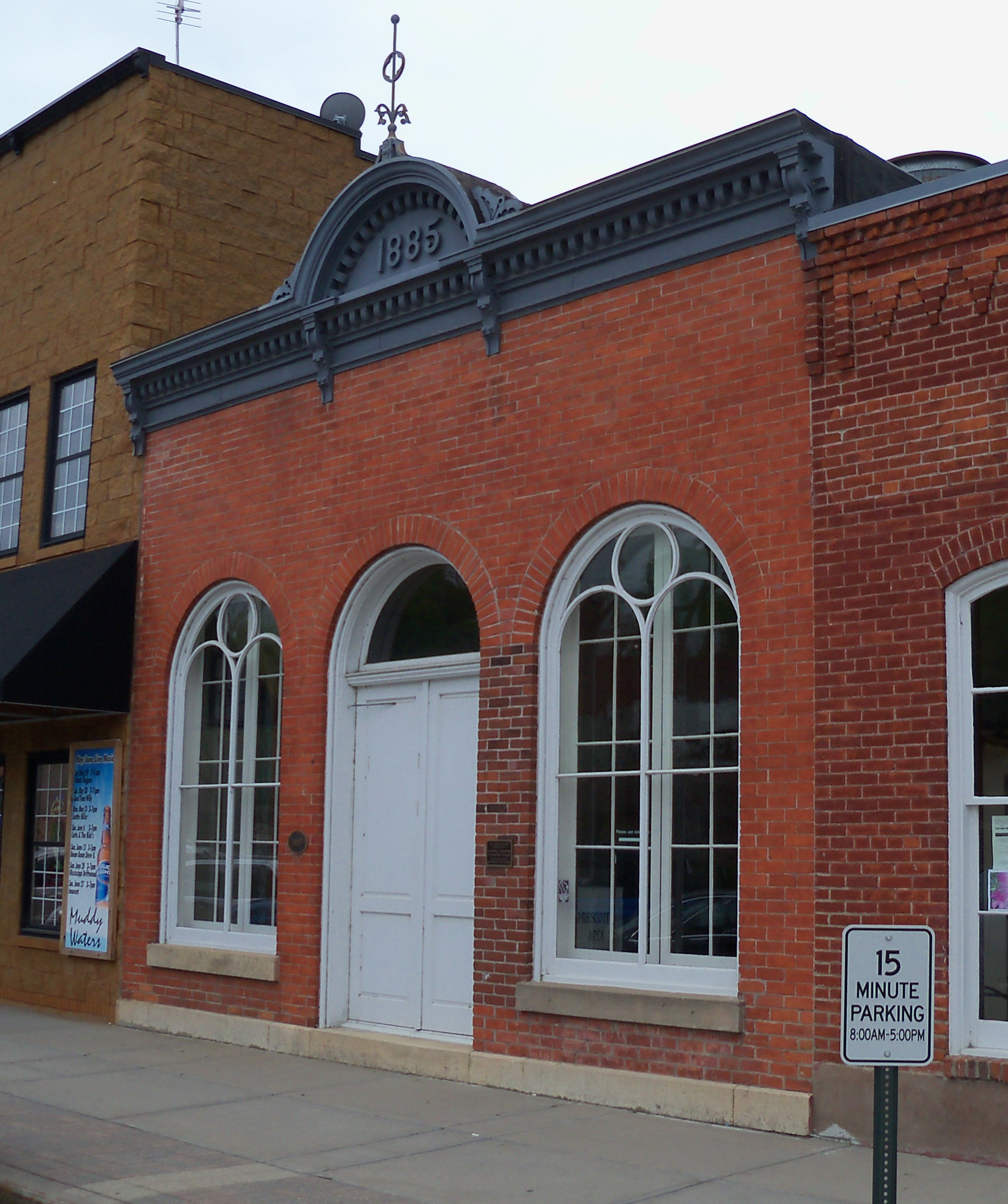 H.S. Smith Bank in Prescott, Wisconsin, USA.